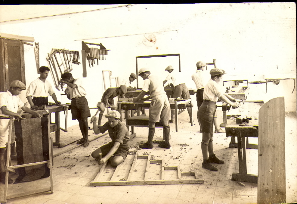 vocational class, Education in Israel